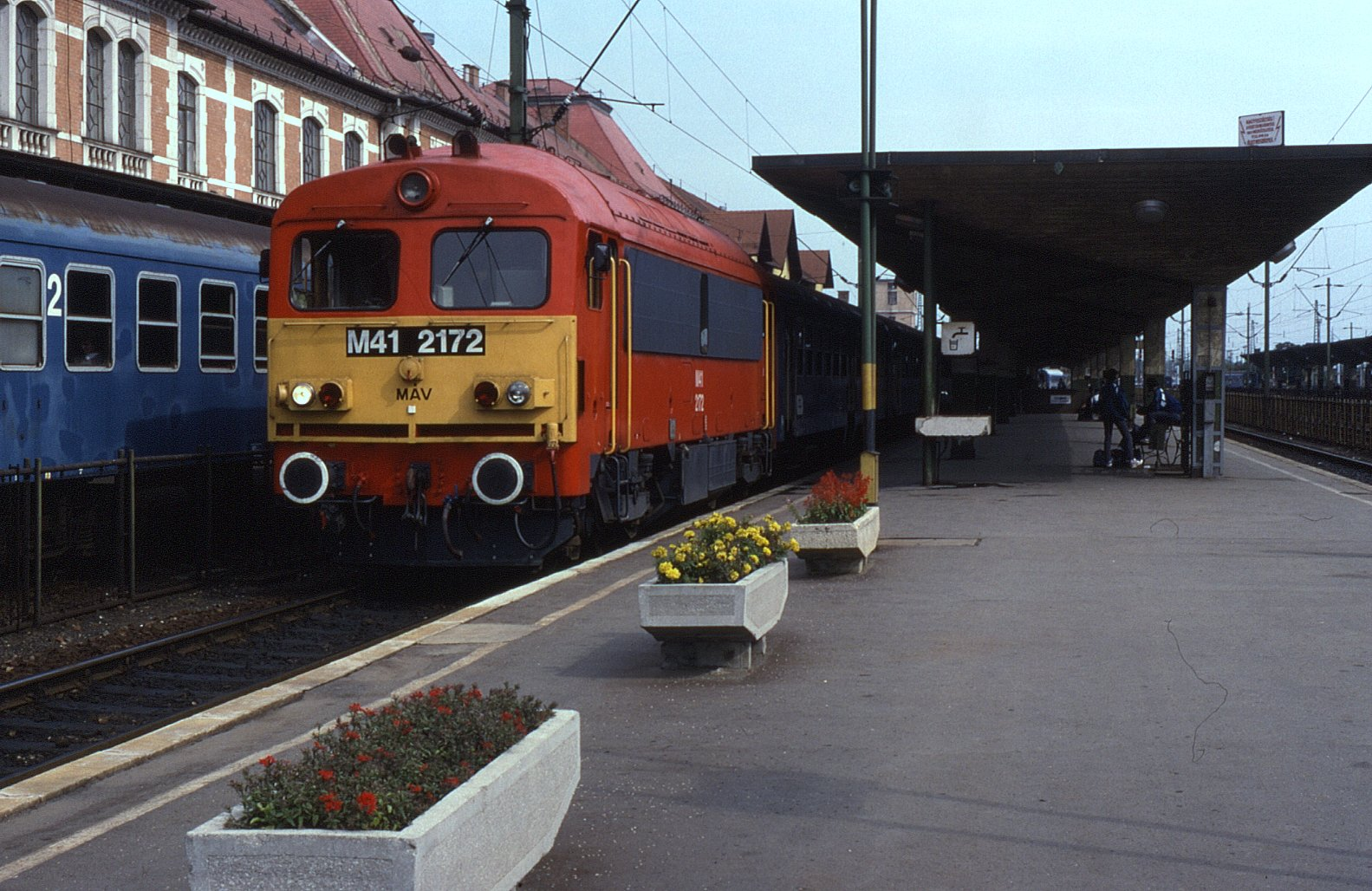 M41 2172 is seen at the end of its journey having worked train 5313 10:25 Košice to Miskolc.